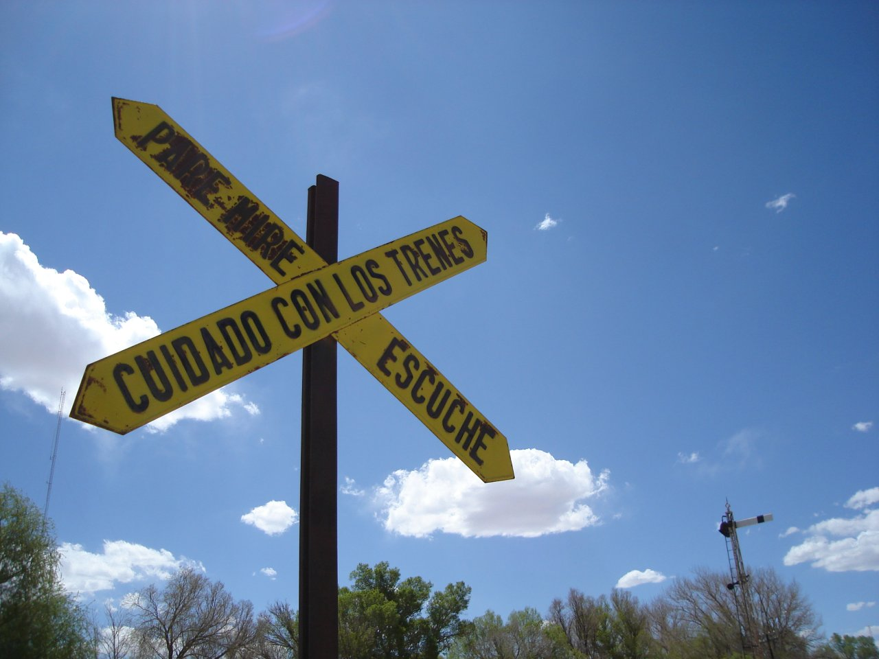 Rairoad crossing sign used in Argentina during the 1940s. The sign included the legend "Cuidado con los trenes - pare, mire, escuche" ("Watch the trains - stop look listen"). The sign is placed in La Quiaca (Jujuy Province) in a crossing with Ferrocarril Gral. Belgrano tracks.